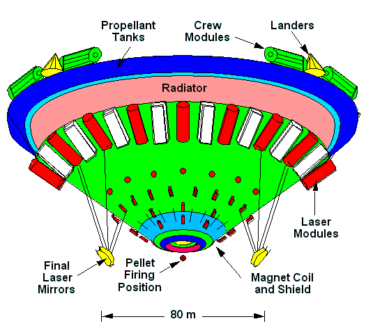 Vehicle for Interplanetary Space Transport Applications